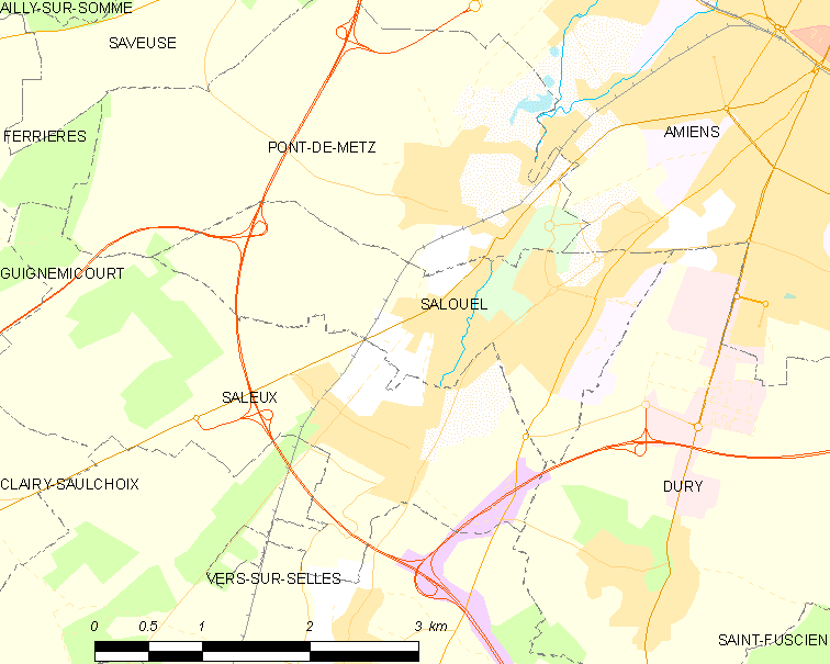 Map of French municipality Salouël